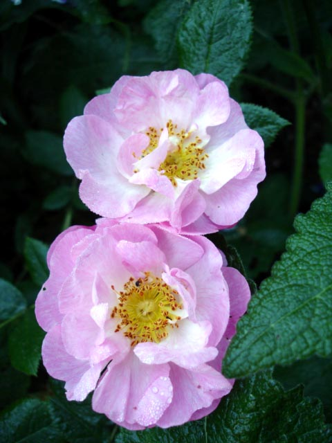 Rosa Damascens-group 'St Nicholas'